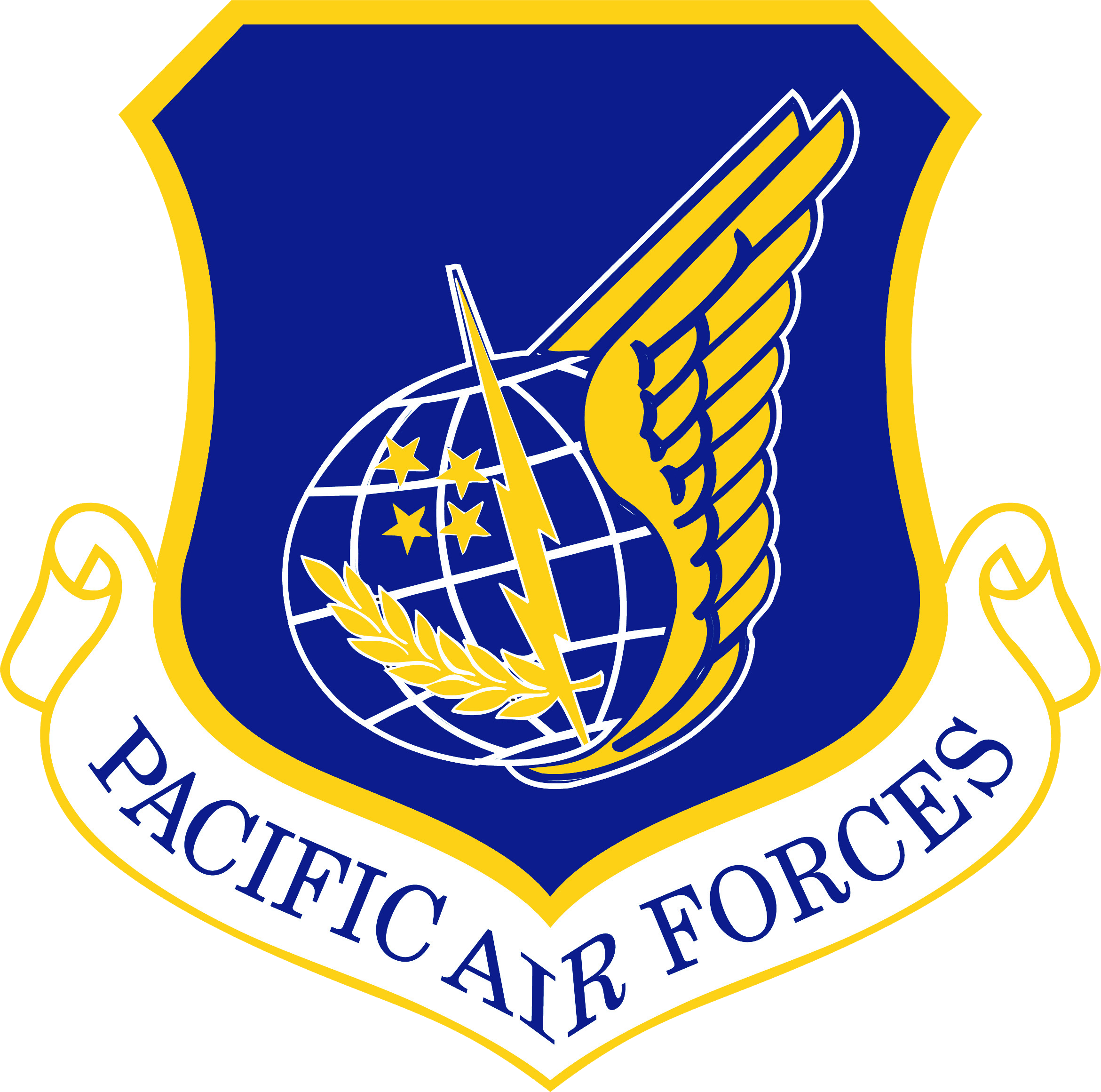 Emblem of Pacific Air Forces of the United States Air Force